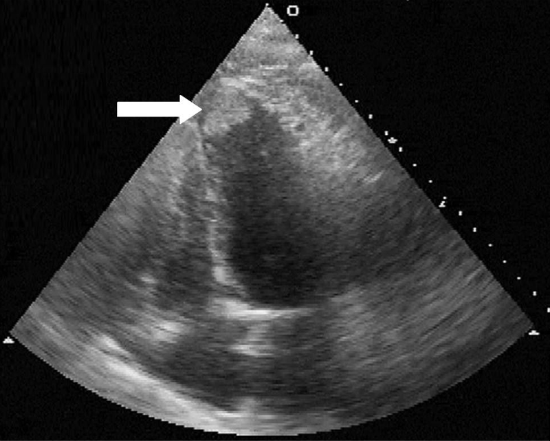 Cardiac duplex ultrasound image (4-chamber view), obtained 2 days after thrombolysis showing the thrombus attached to left ventricular apex (arrow).